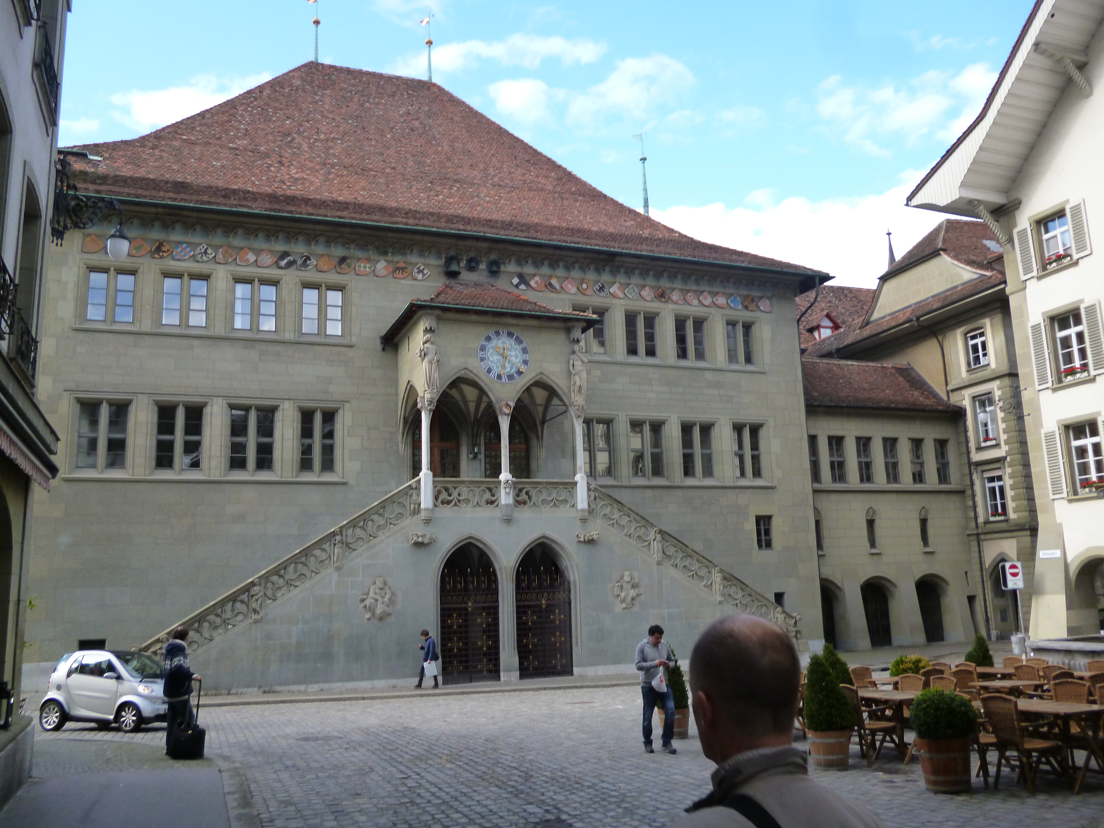 Rathaus Bern